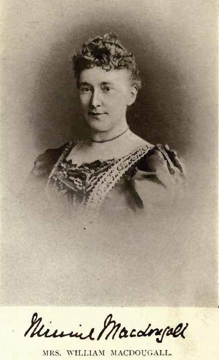 Mrs William Macdougall by William James Topley